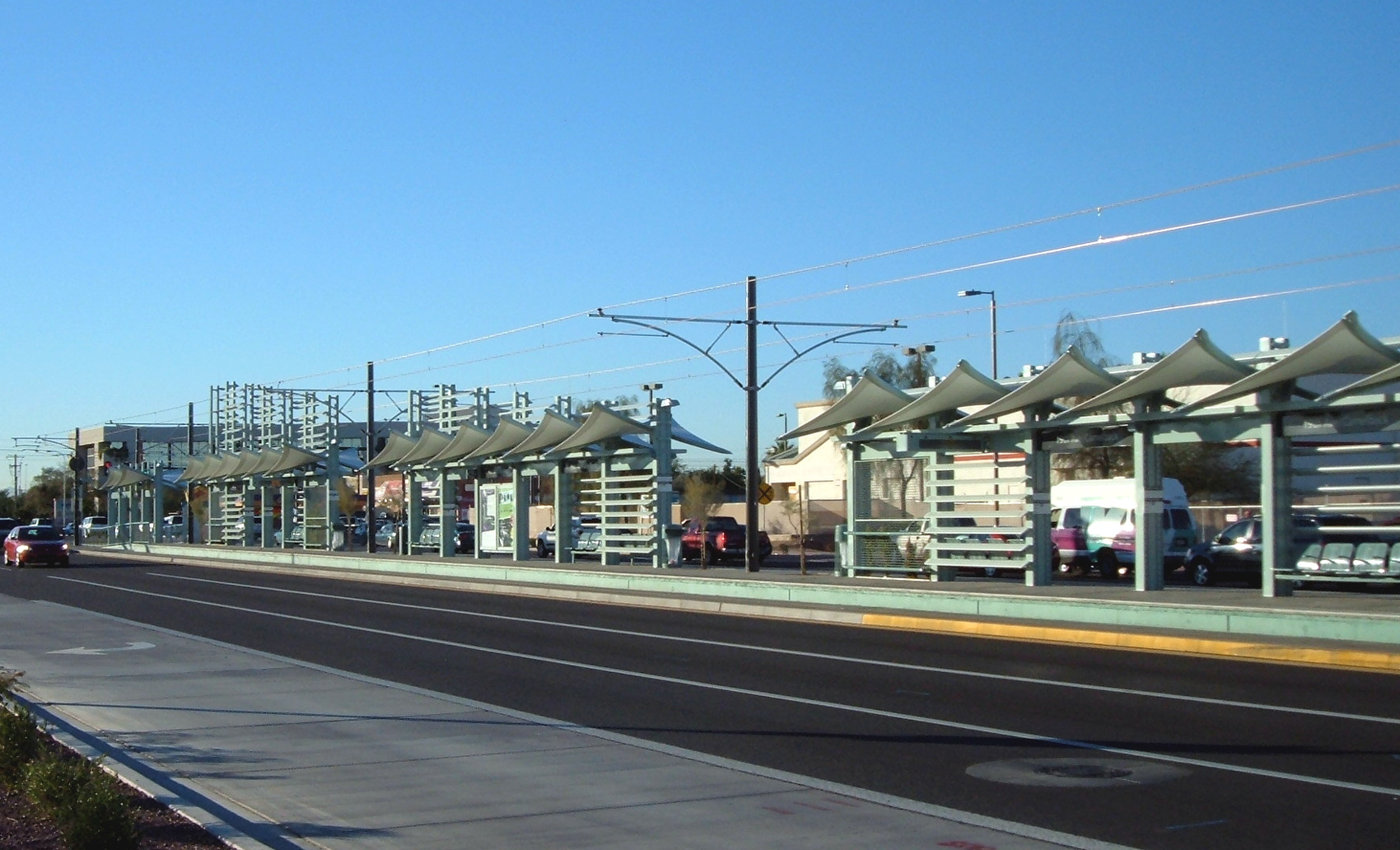 Photograph of the 19th Avenue (or Camelback at 19th Avenue) Station of METRO Light Rail that serves the Phoenix area, Arizona, USA. This photograph was taken on December 29, 2008.